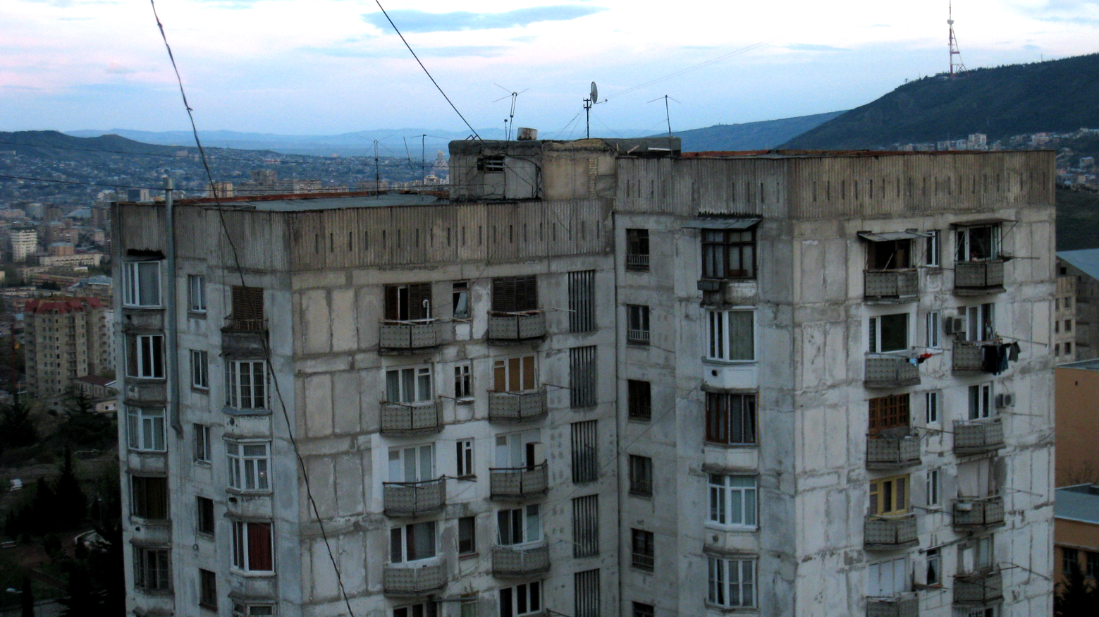 at Misha's place in Tbilisi